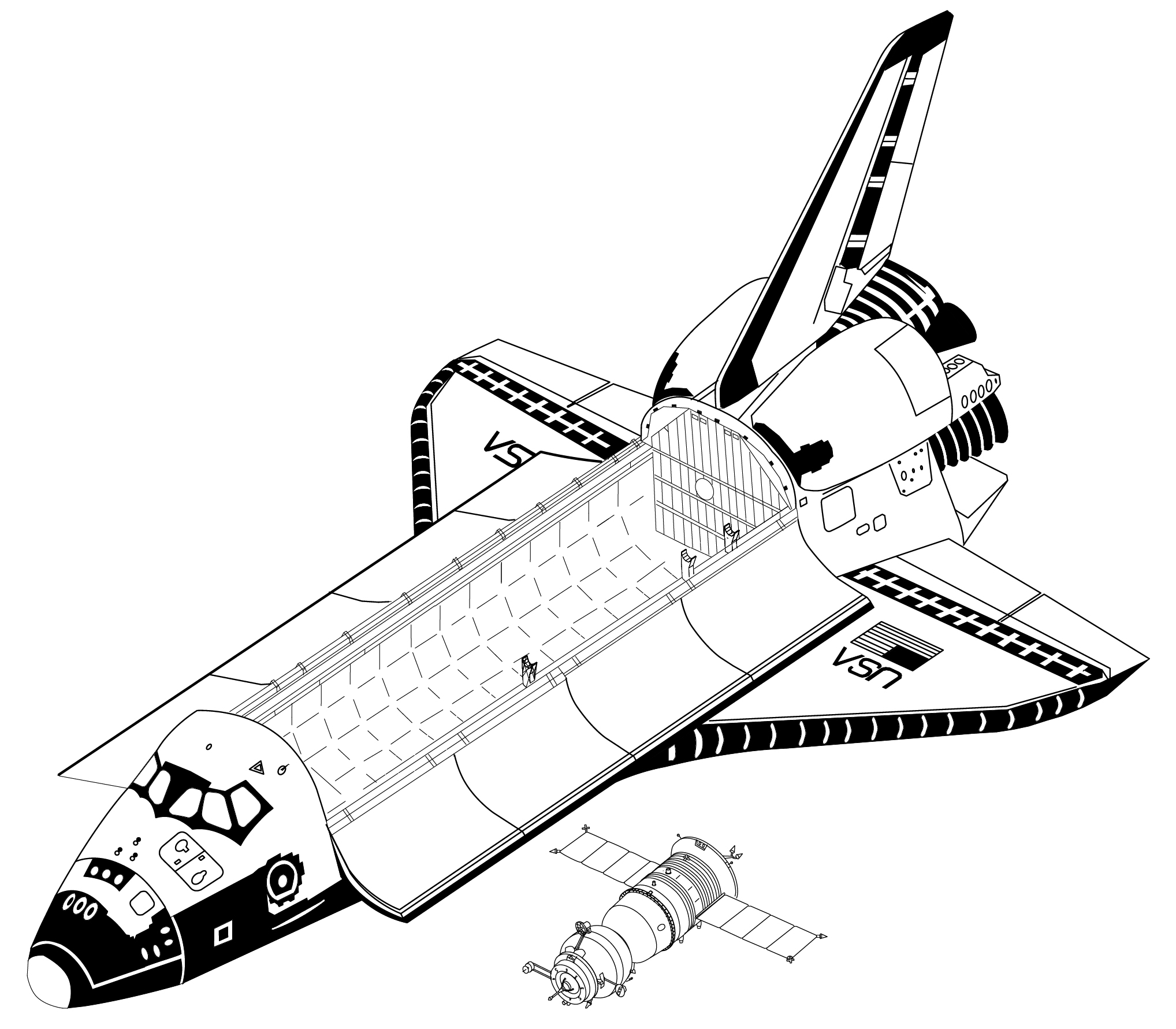 Figure 4-4. Space Shuttle Orbiter and Soyuz-TM (drawn to scale). Current spacecraft used by humans to travel in space.